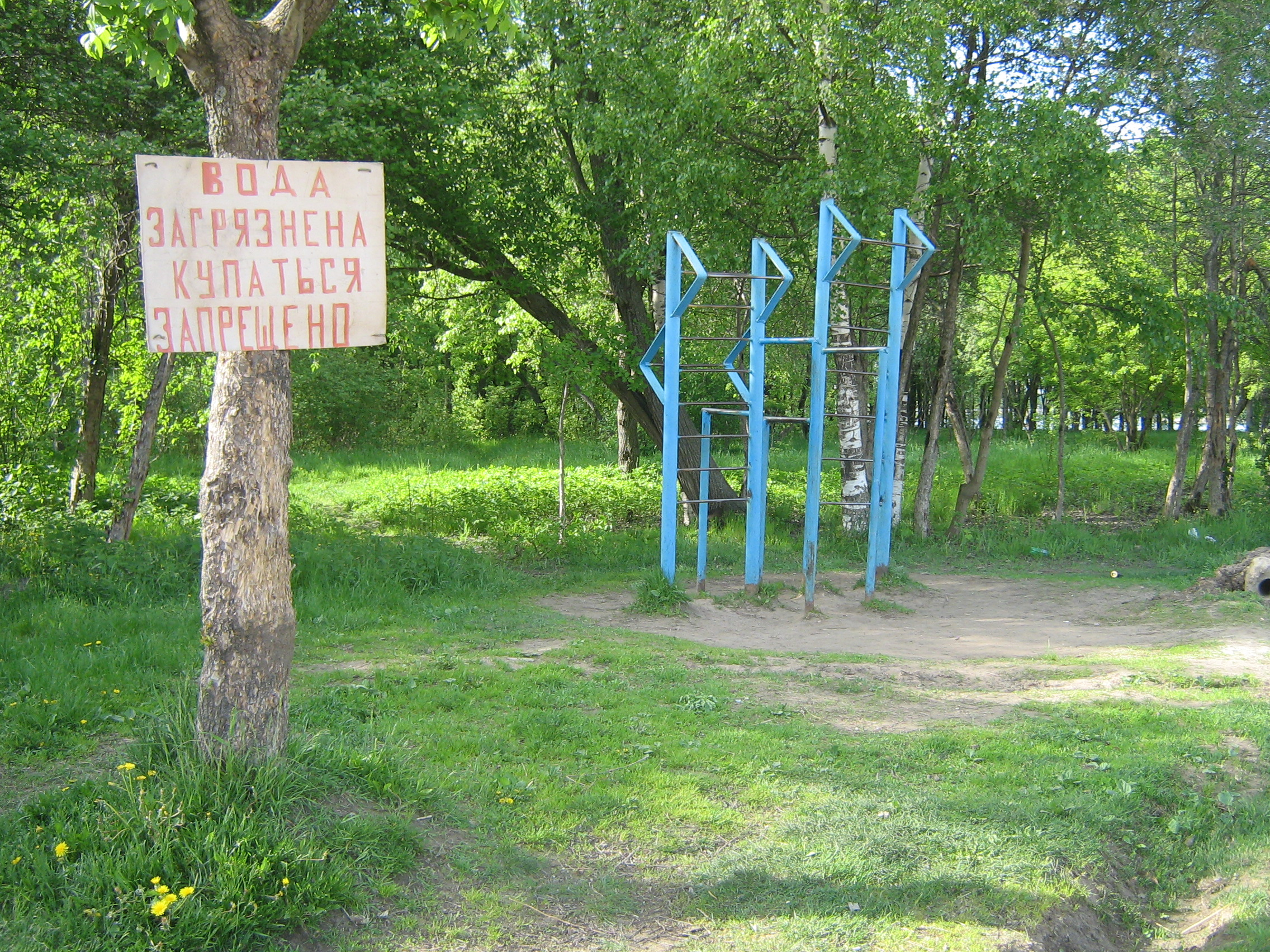 Kolpino (Russia)